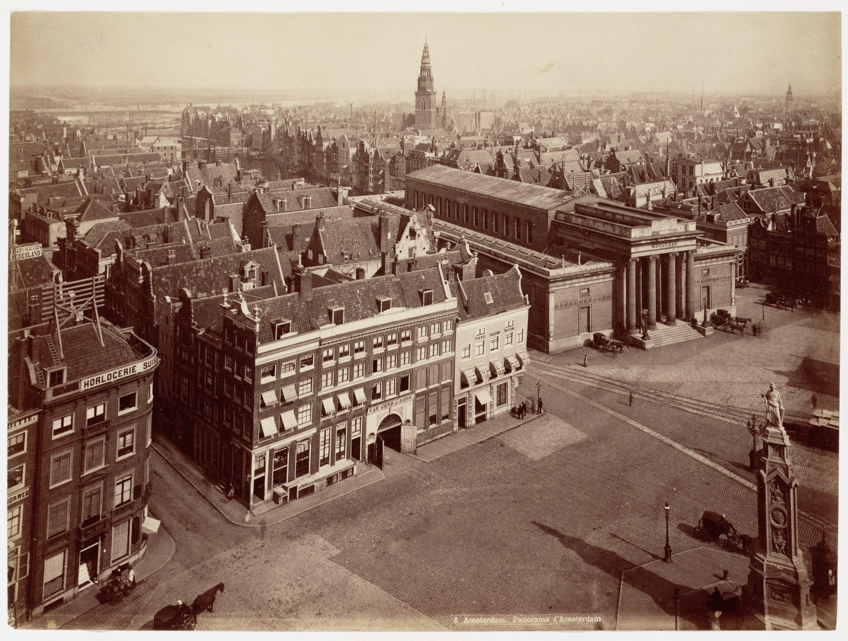 Postcard of the northside of Damsquare, Amsterdam, showing the former commodity exchange by J.D. Zocher. Amsterdam, Stadsarchief Amsterdam (inv.nr. 010003002167).